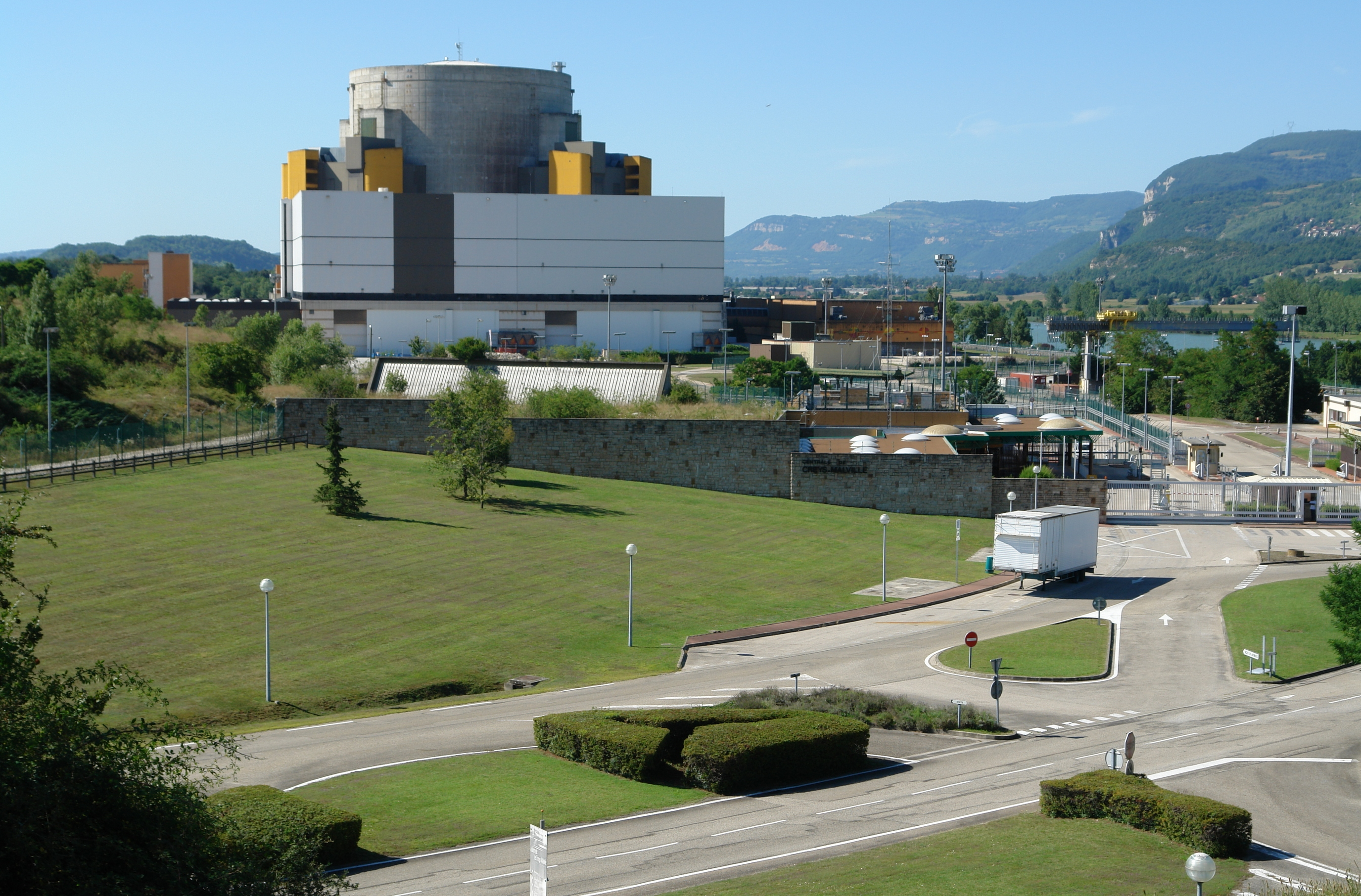 Superphenix, Nuclear power plant of Creys-Malville, Isère, France.